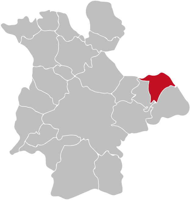 Location of the district Breitenbach within Siegen, Germany. Red/Grey colors match the color scheme of Germany maps and information boxes in German Wikipedia. District is highlighted in red.